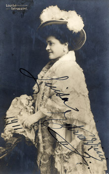 Luisa Tetrazzini